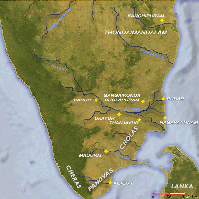 Map showing the Chola country with its major places marked.